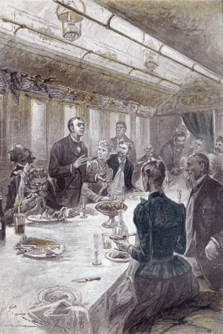 Ilustration of Léona Benetta to novel Claudius Bombarnac.